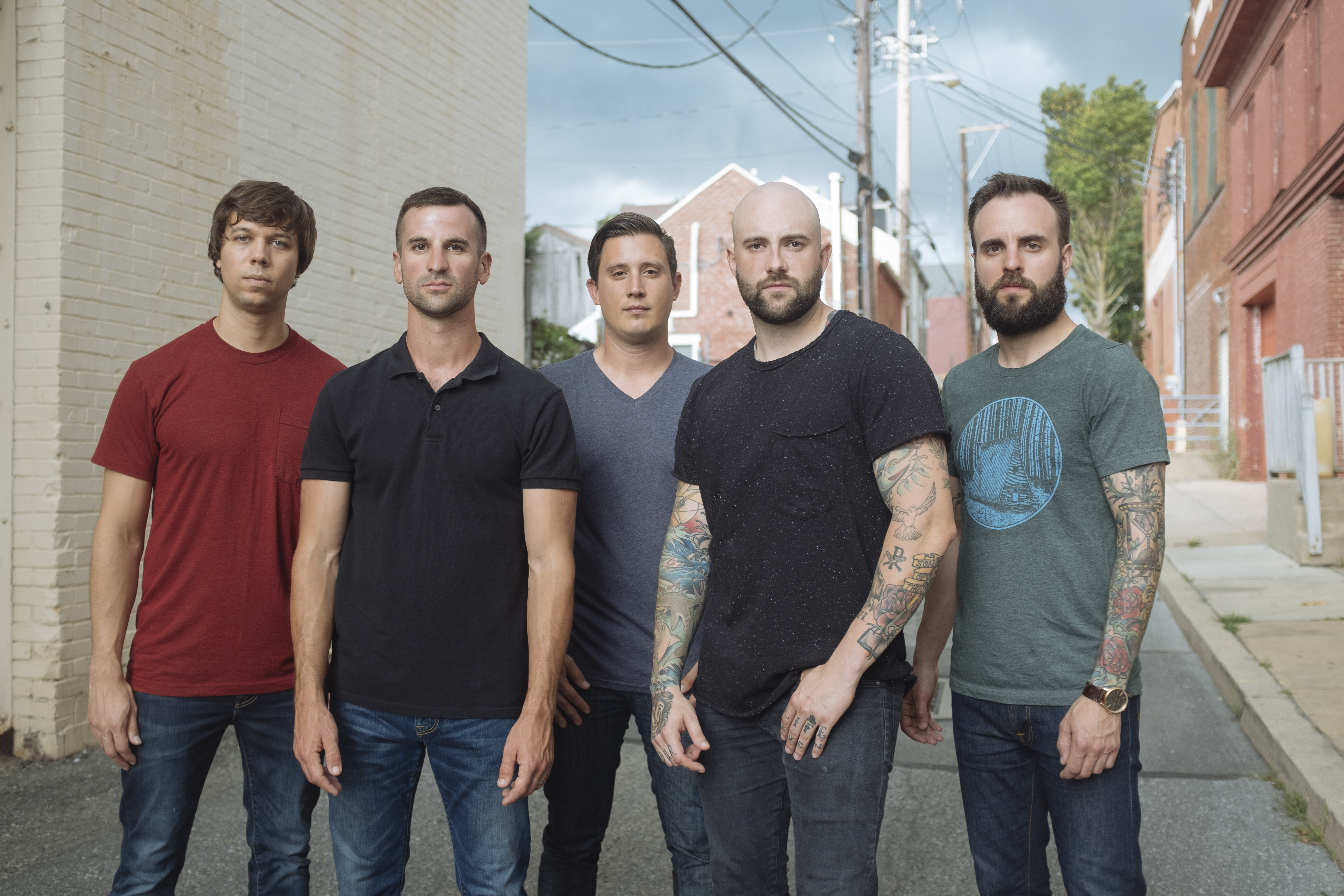 Main Press Photo of the band August Burns Red